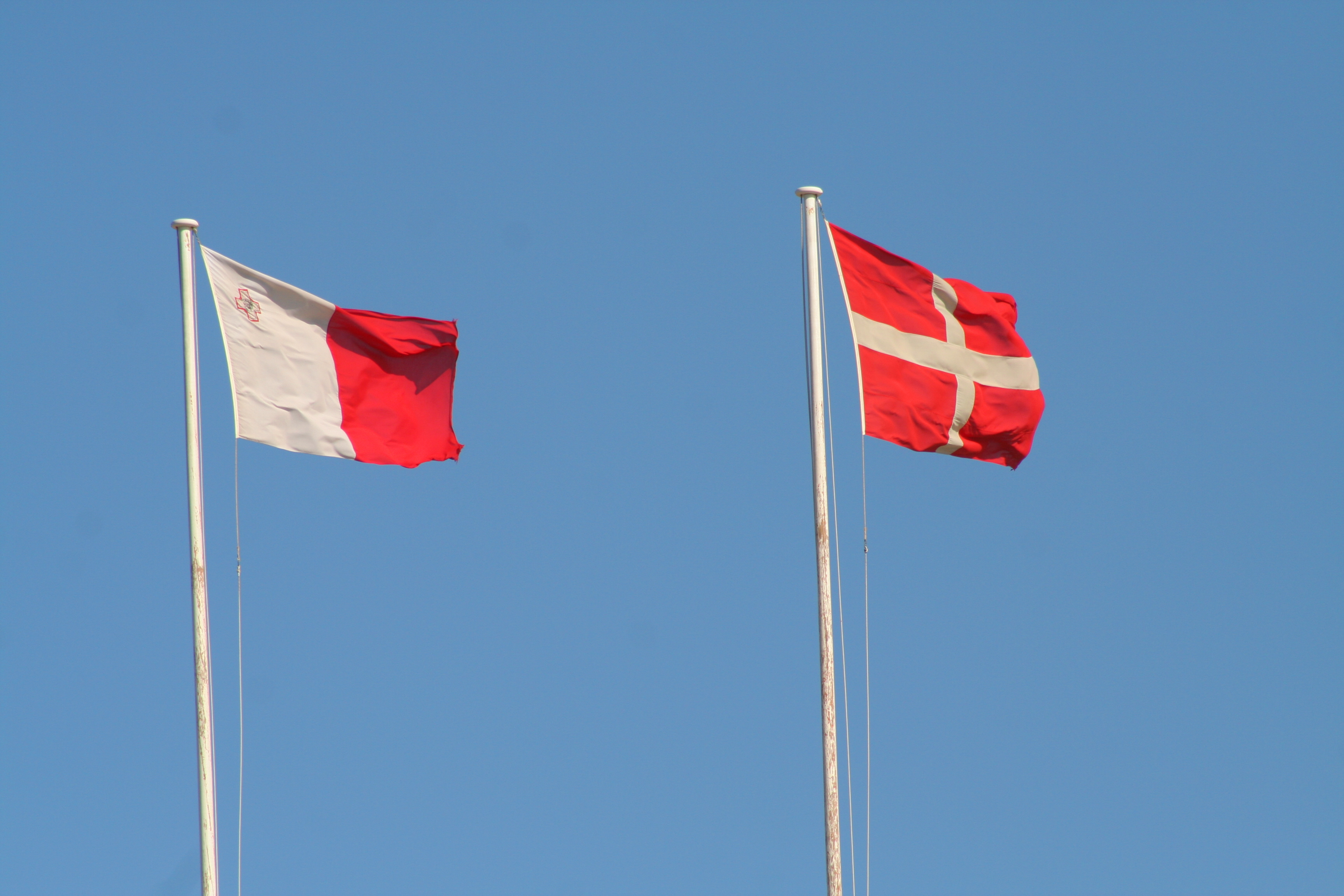 The flag on the left is the Maltese National Flag, the flag on the right is the Flag of the Sovereign Military Order of Malta.